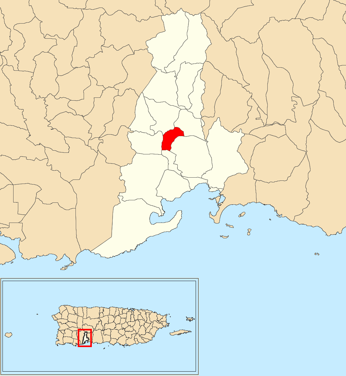 Jaguas, Guayanilla, Puerto Rico locator map